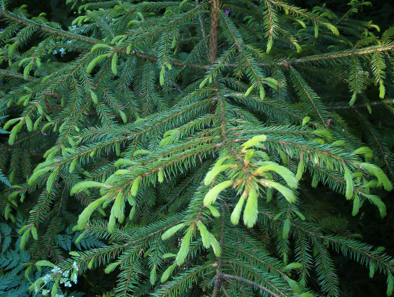 Young Picea koraiensis -tree. Taken by me 17. June 2005.